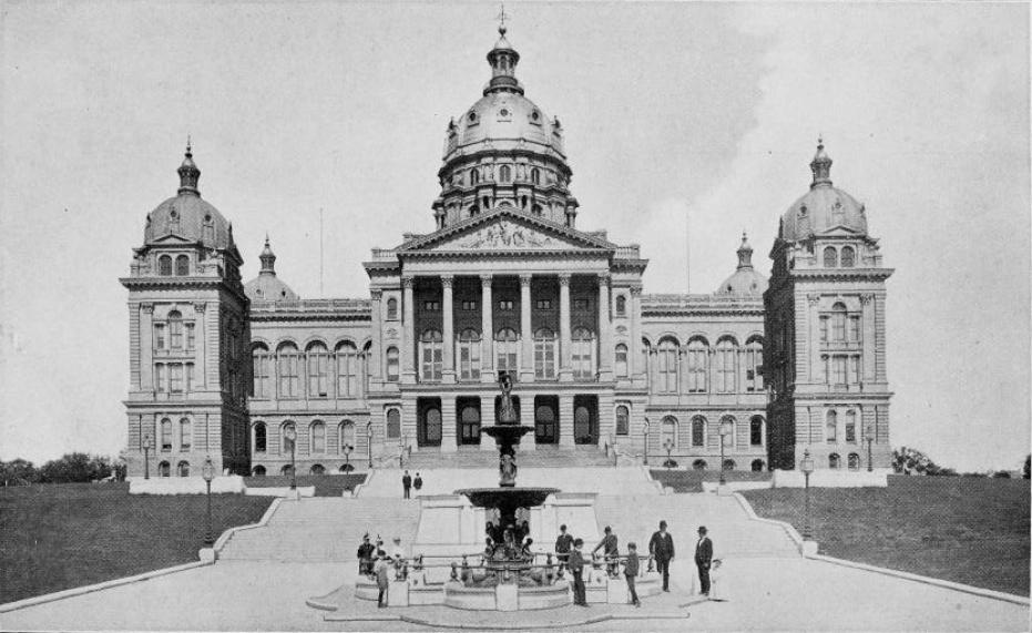 The Iowa State Capitol, as depicted is the 1917-18 entry in the "Iowa Official Register" series of publications by the State of Iowa.